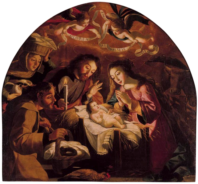 Adoration by the shepherds by Josefa de Óbidos, located in the National Museum of Ancient Art, Lisbon, Portugal.